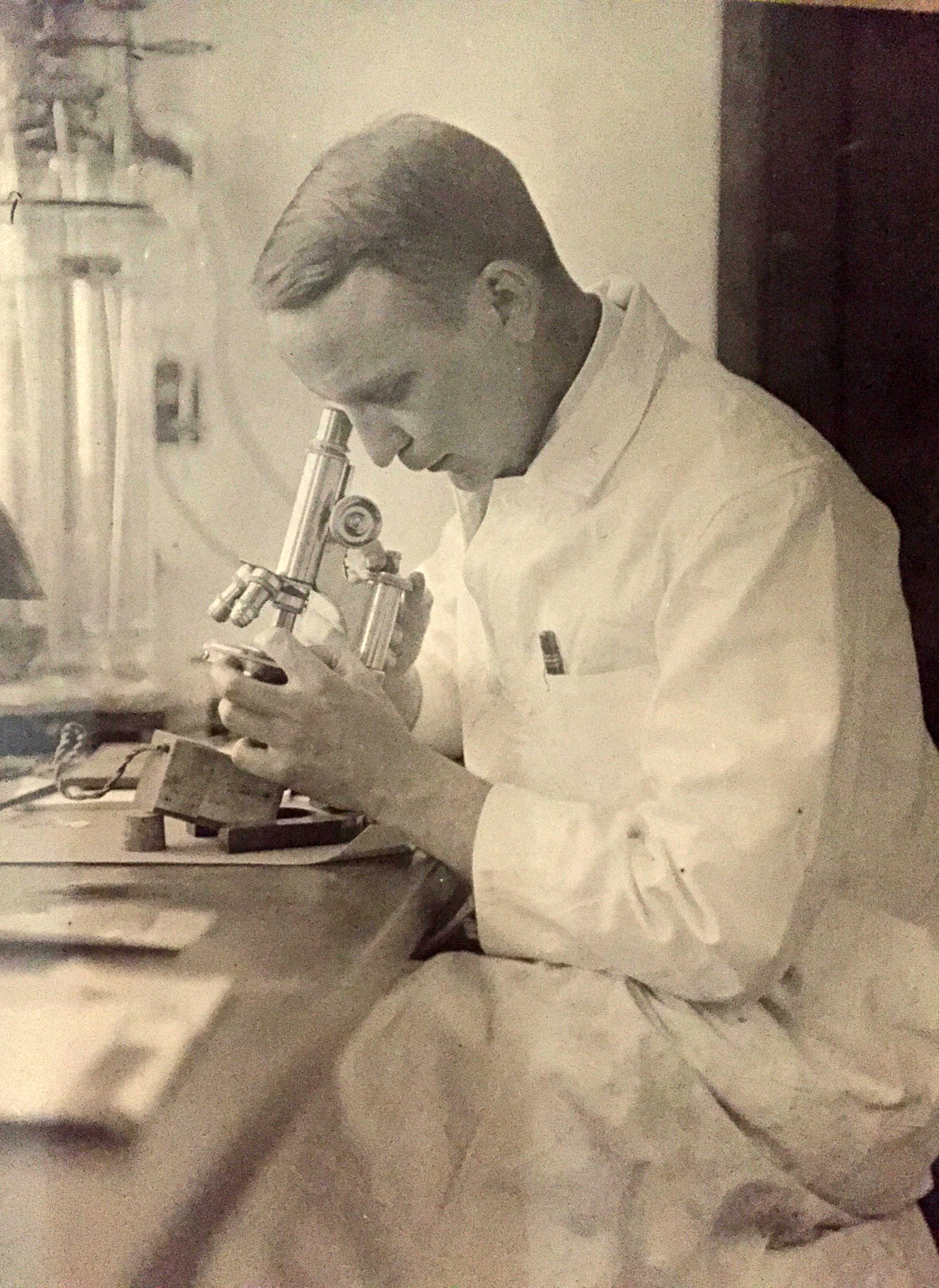 Photo of medical researcher specializing in causes of cancer Montrose Thomas Burrows